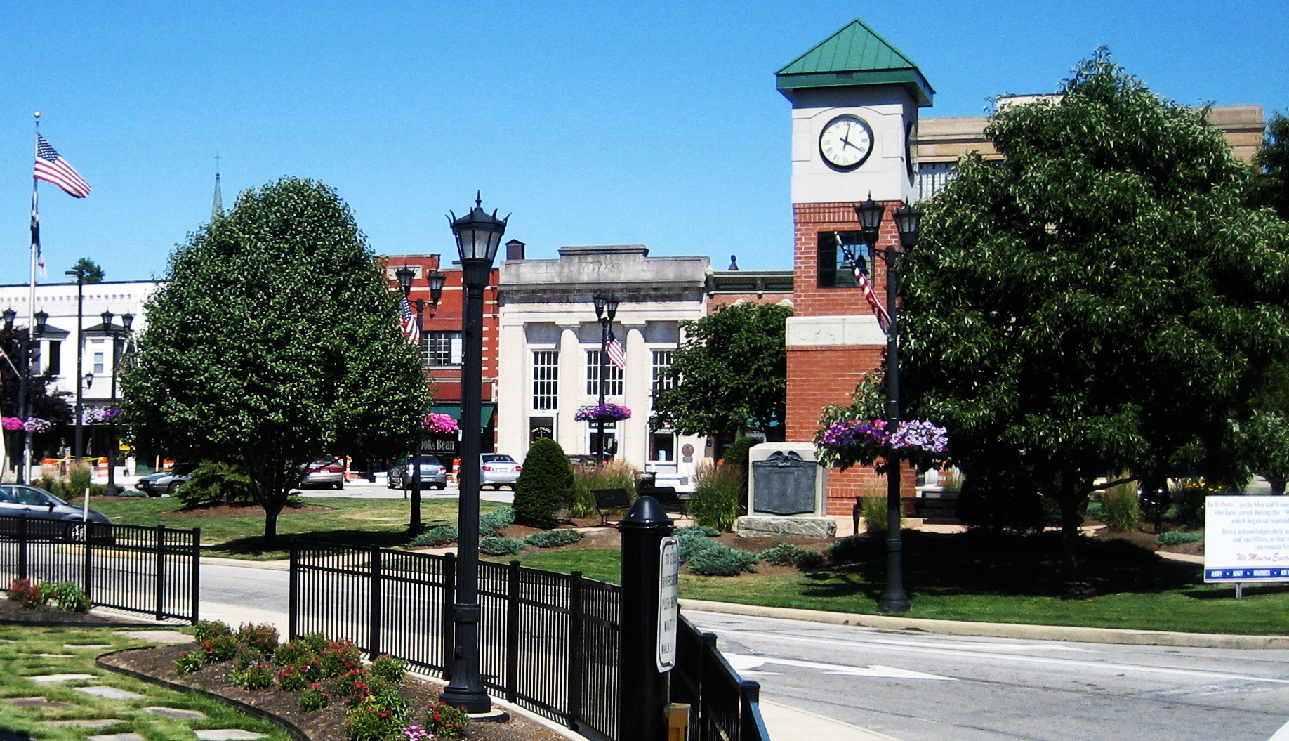 Image of downtown triangle of Berea, OH; taken June 30 2007 by Geoffrey A. Landis